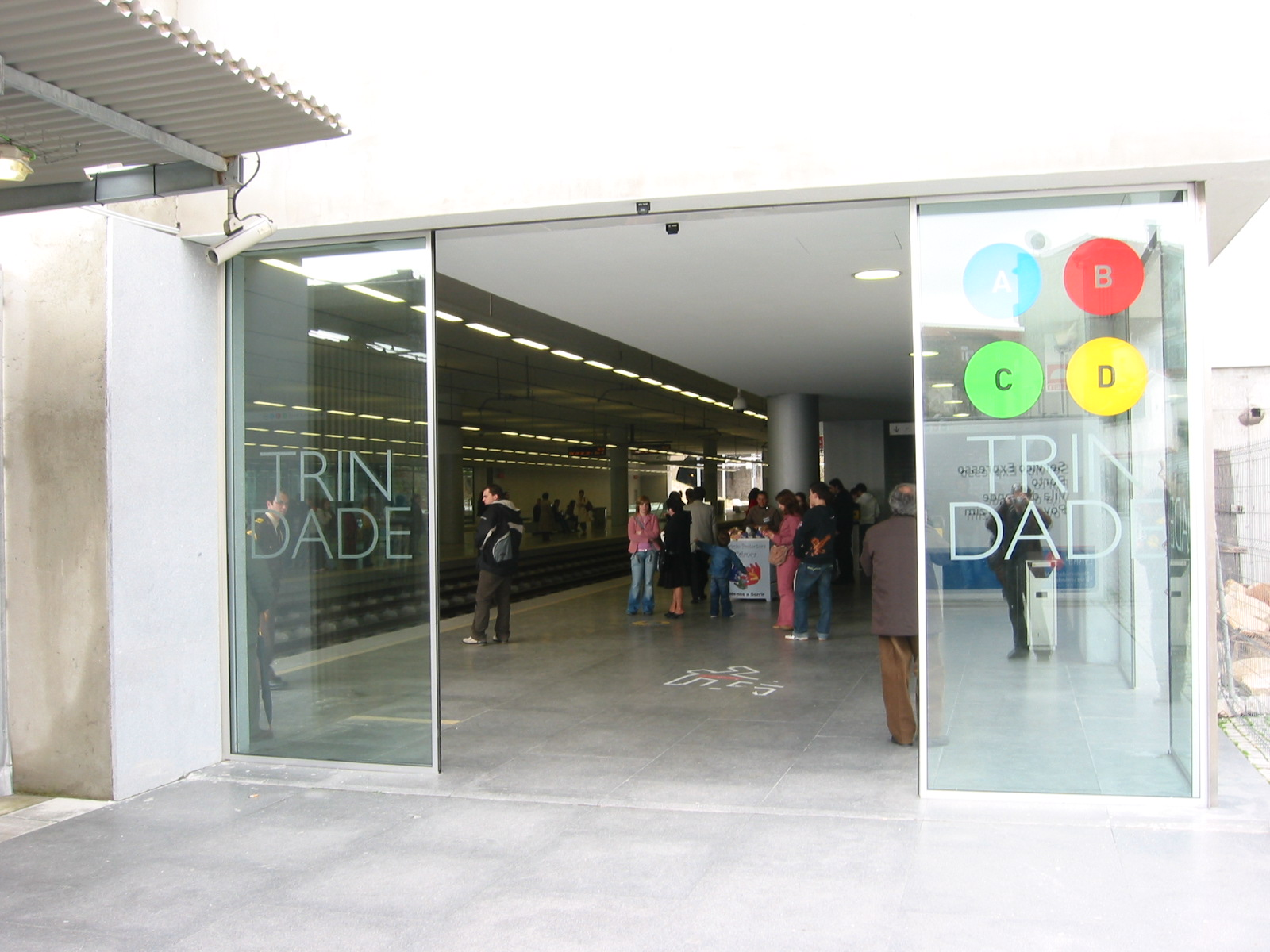 Trindade station, porto. Self taken (deiz), GFDL self. The white outline on the floor inside the door is part of a promotional campaign about heart disease, modelled on a police "chalk outline". These were laid all over Porto's sidewalks and public places.